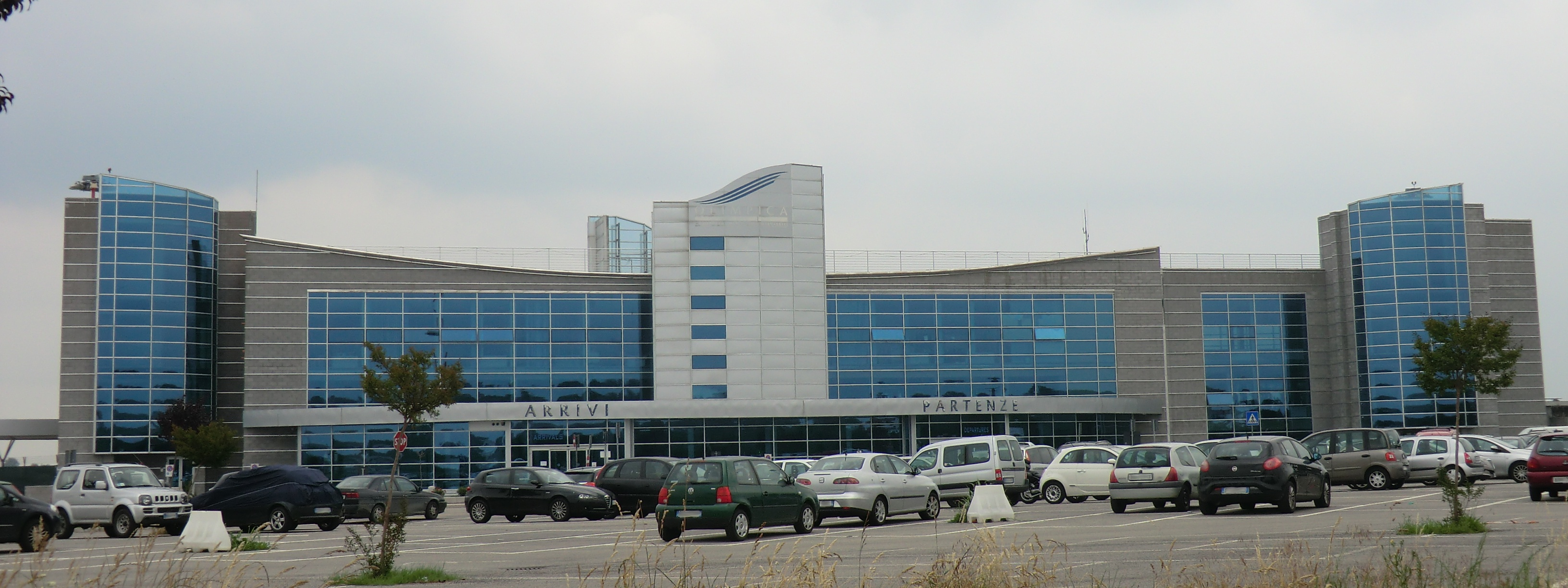 Cuneo Levaldigi Airport: terminal